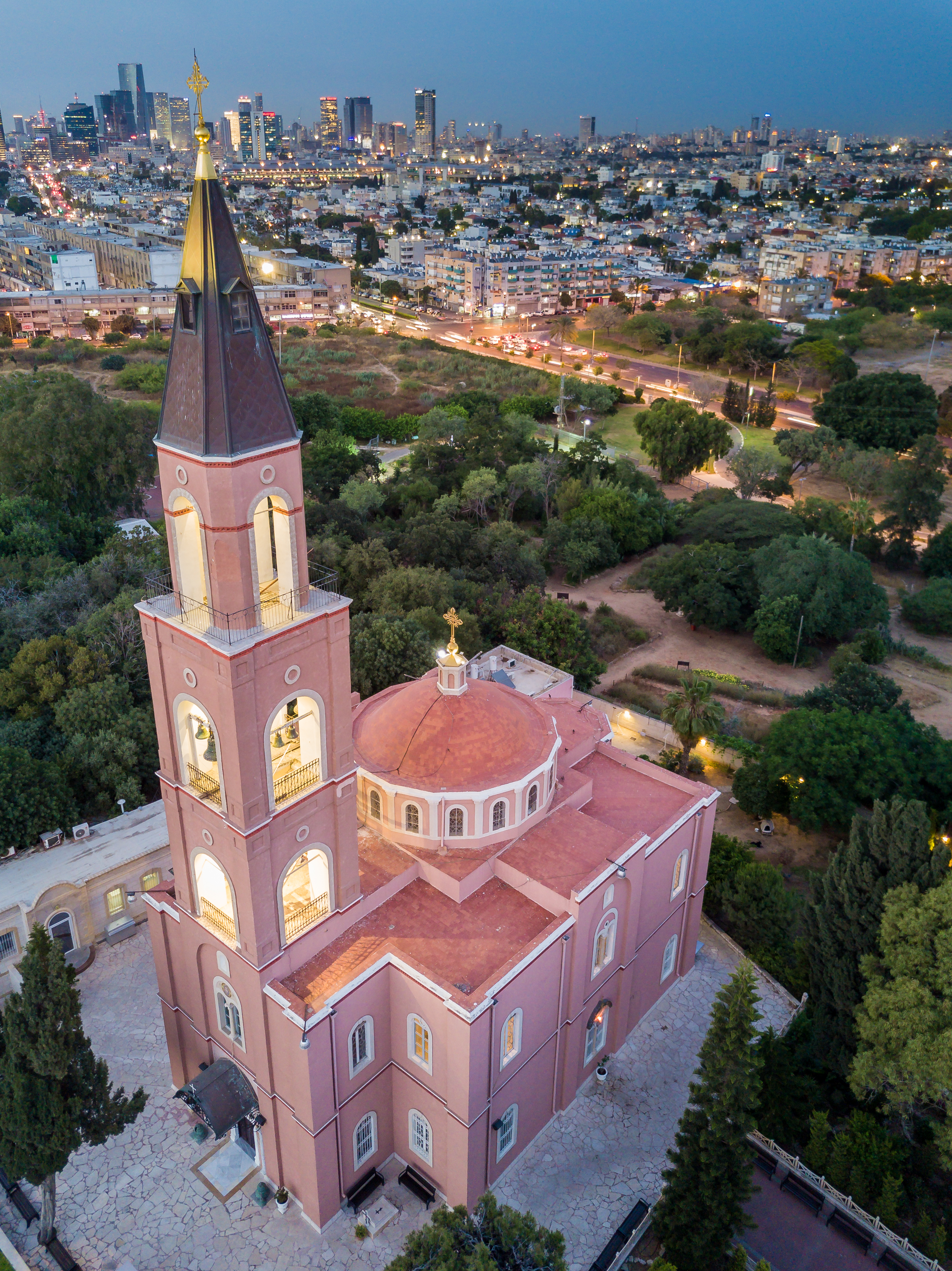 The Russian Orthodox Church in Tel Aviv